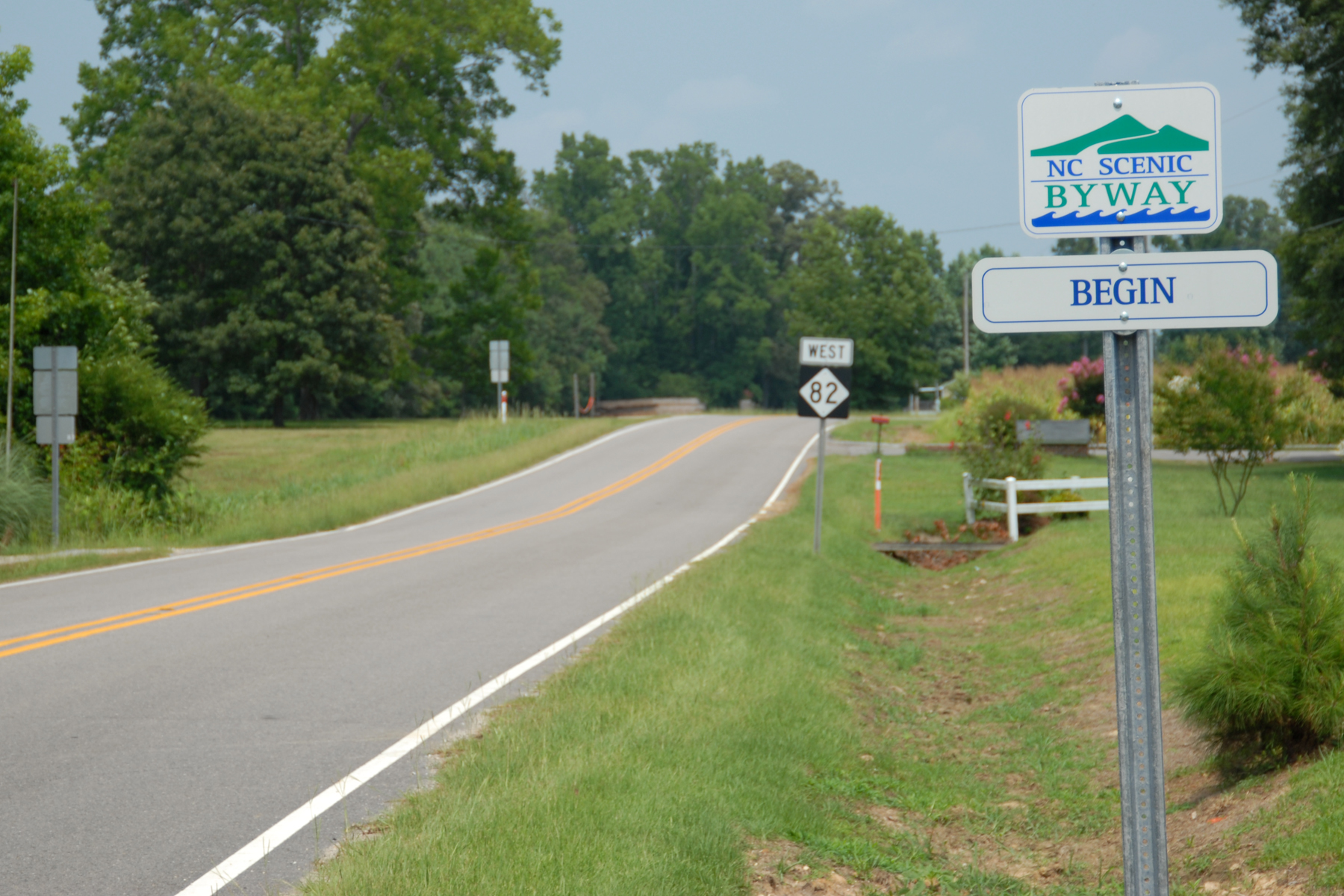 North Carolina Highway 82, part of of the Averasboro Battlefield Scenic Byway.